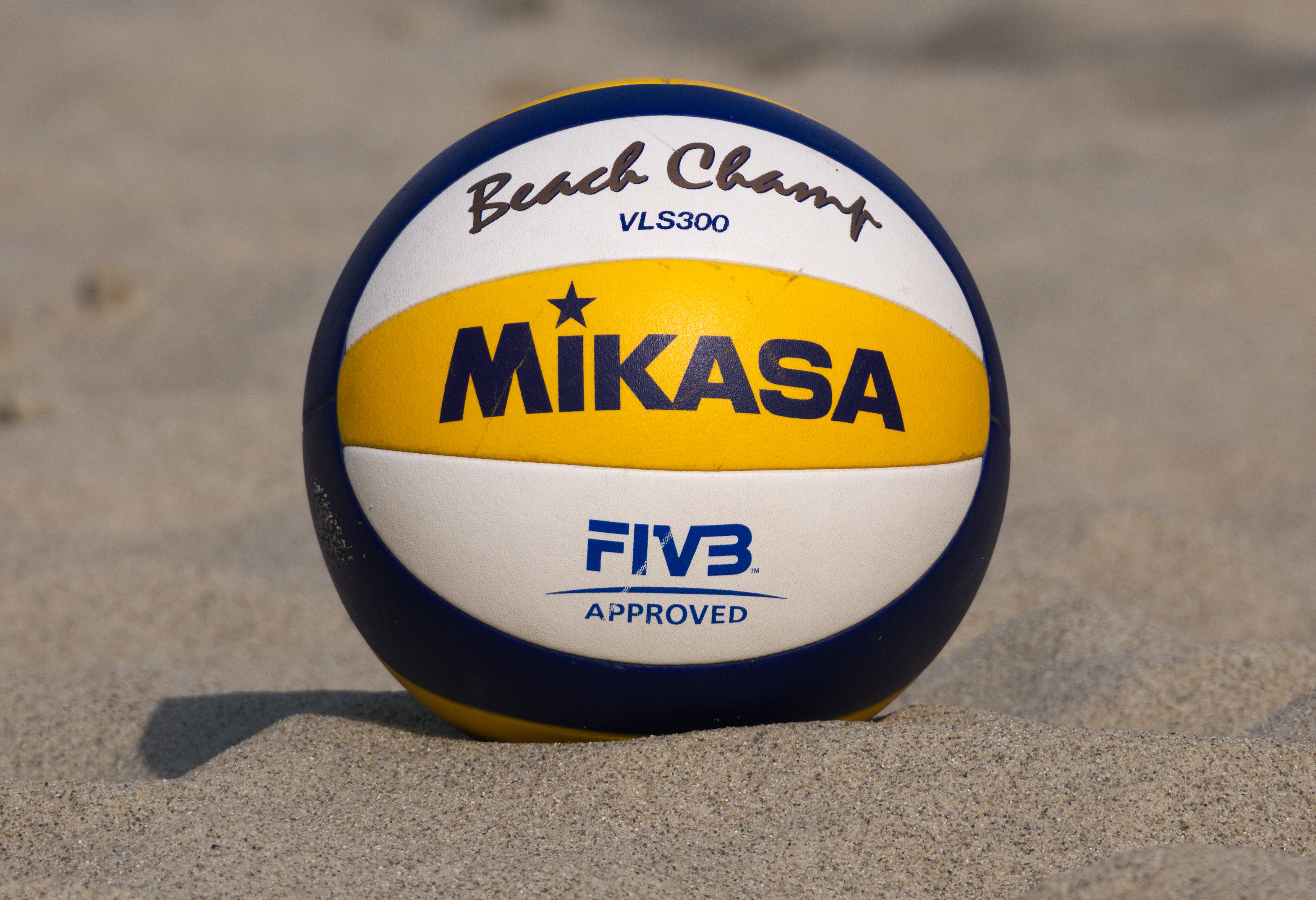 Mikasa VLS300 official beach volleyball, Slovenia 2017 (CEV 2017 European Championship Tour) This photograph was taken with a Panasonic Lumix DMC-G85/G80